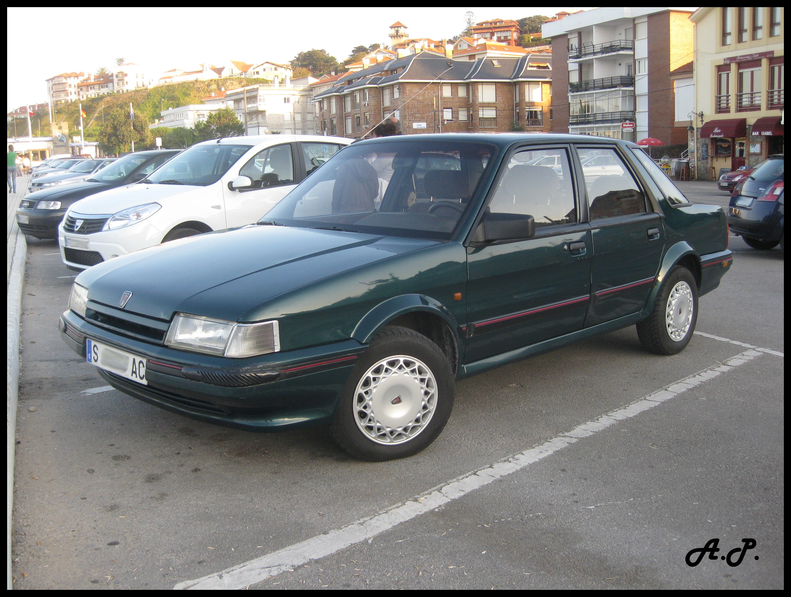 Superb looking Montego, one of the latest to be built, even if it says Austin on the back it's no doubt a Rover, I guess the owner is a fan of Montegos and decided to put on the boot lid the badge of the brand that started selling this car :D, I don't like what the owner has added to the corners of the bumpers... It had a 1993 plate from Santander (Cantabria) and was spotted in Comillas (Cantabria).